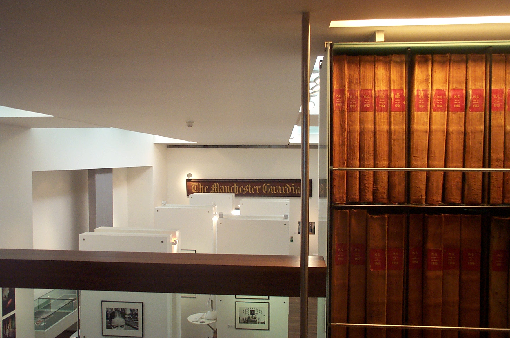 The Guardian's Newsroom visitor centre and archive in London, 2004-08-27. Copyright 2004 © Kaihsu Tai.